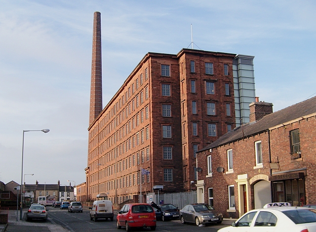 Dixon's Chimney and Shaddon Mill, Junction Street Both are gradeII* listed buildings. - The mill was built by Peter Dixon (architect Richard Tattersall) in 1835-6. At the time the largest cotton mill in England, and the chimney was the tallest in the land. Originally over 300ft (92m) high, it was shortened in 1950 to its current height (270-290ft, depending which source you read). After Dixon and Sons went bankrupt in 1872 the mill was used for woollen production, and by the later 20th century the floors were in multiple use. Over the last couple of years much of the mill has been converted to luxury flats.